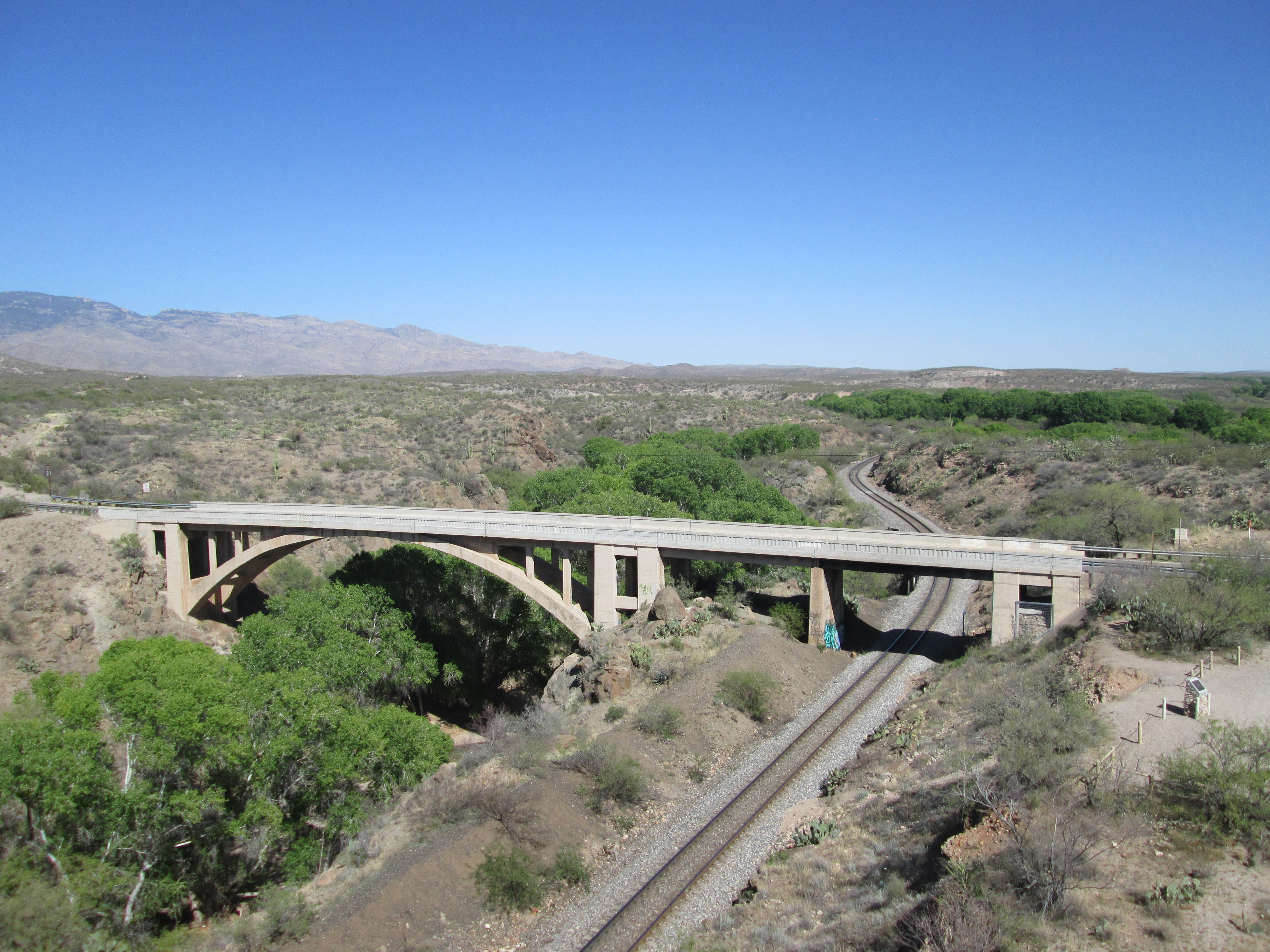 View of the Cienega Bridge (built 1920-21) facing east from the top of the nearby Marsh Station Bridge. Cienega Creek and its riparian corridor is running through the center of the photograph. Cienega Creek Natural Preserve, Pima County, Arizona